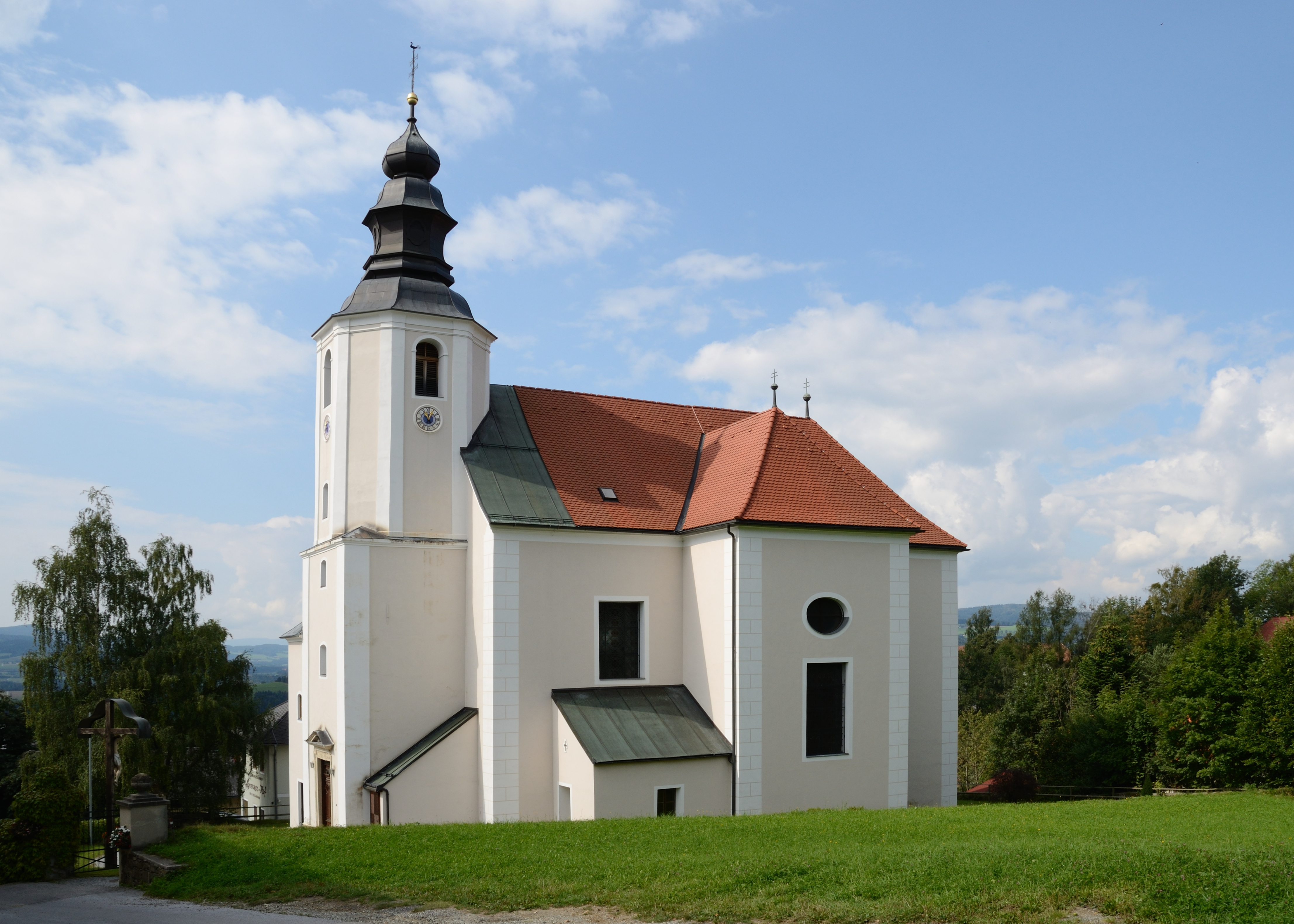 Parish church St. Laurentius at Sankt Lorenzen am Wechsel, Styria.